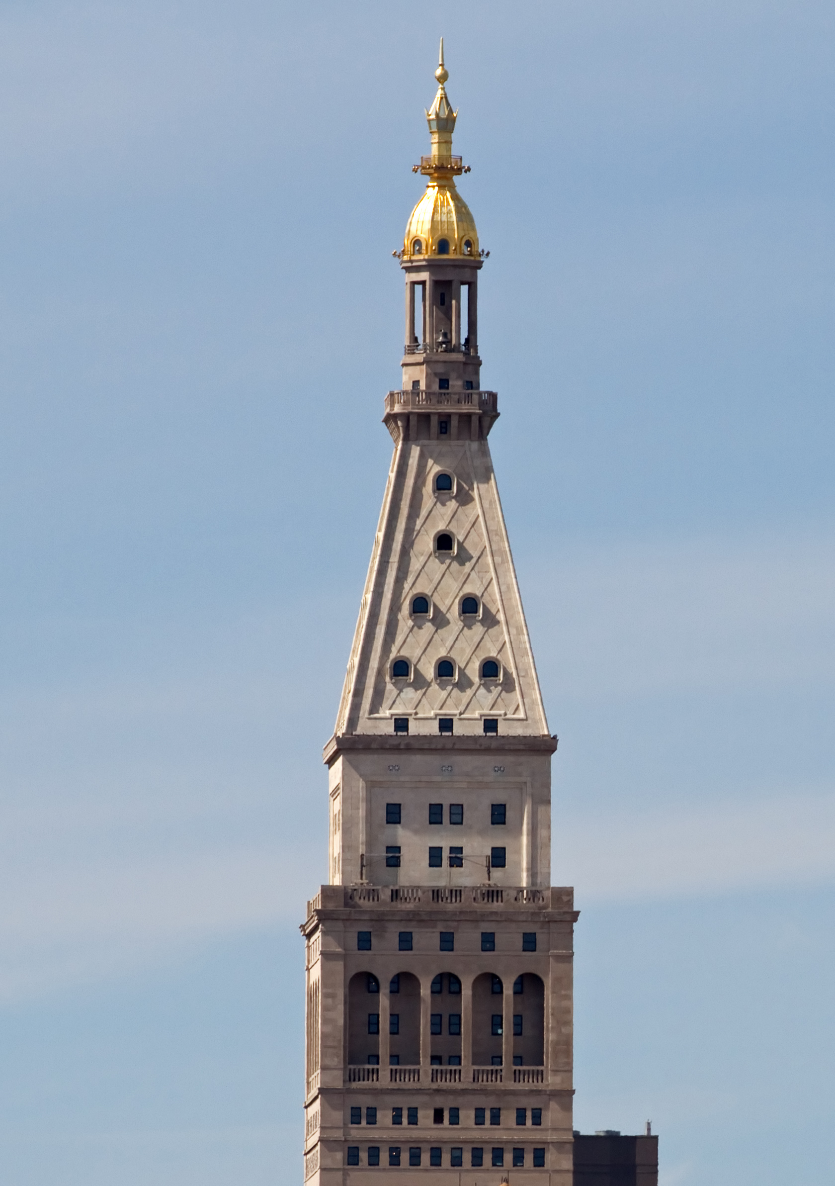 Metropolitan Life Tower from the East River